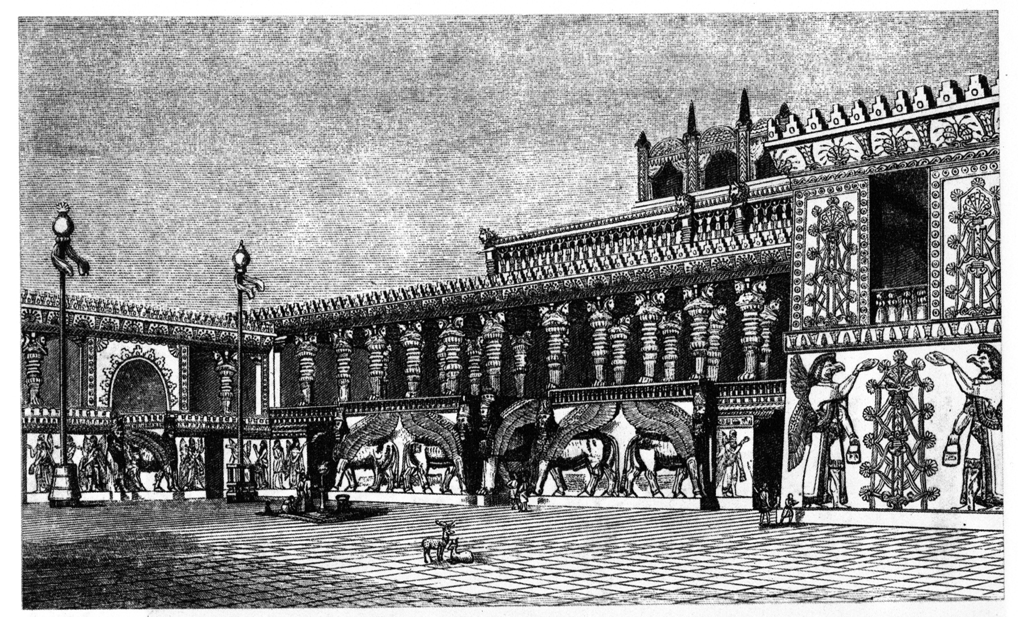 19th century artist's conception of the assyrian palace at Dur Sharrukin (today Khorsabad, Iraq).